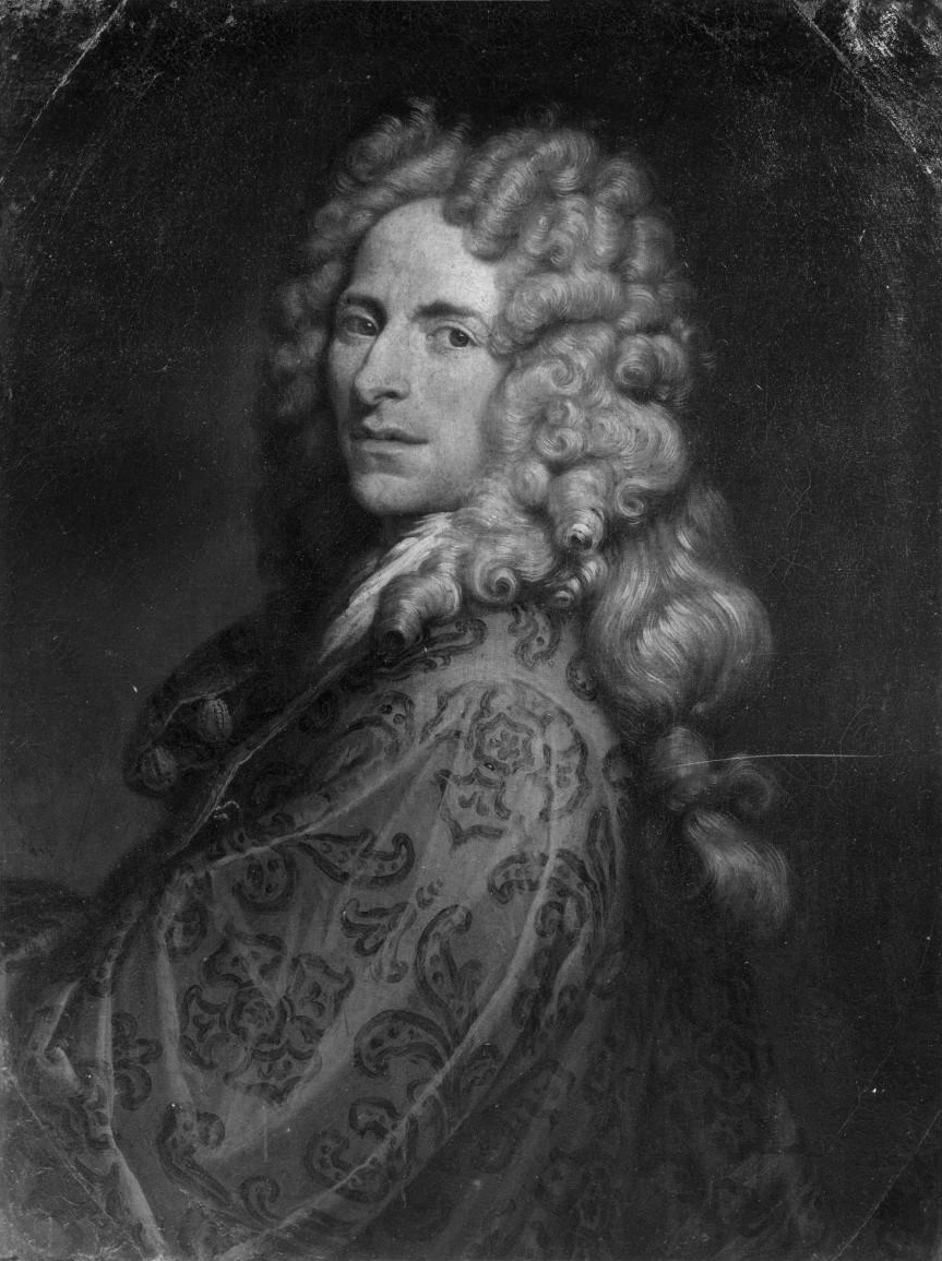 Self-portrait by Francesco Galli da Bibiena, oil on canvas, Galleria degli Uffizi, Florence